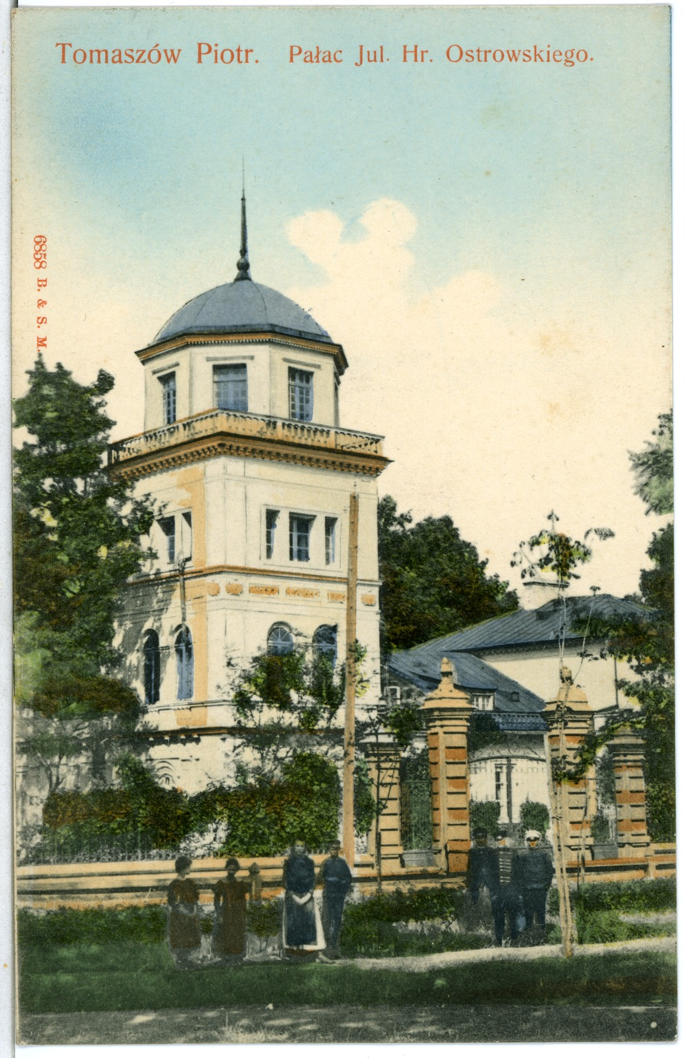 This postcard is from publisher Brück & Sohn in Meißen ( This postcard has a unique number 06858 and is available in a higher resolution at the publisher. This images was uploaded in a cooperation project between Wikipedians and the publisher.